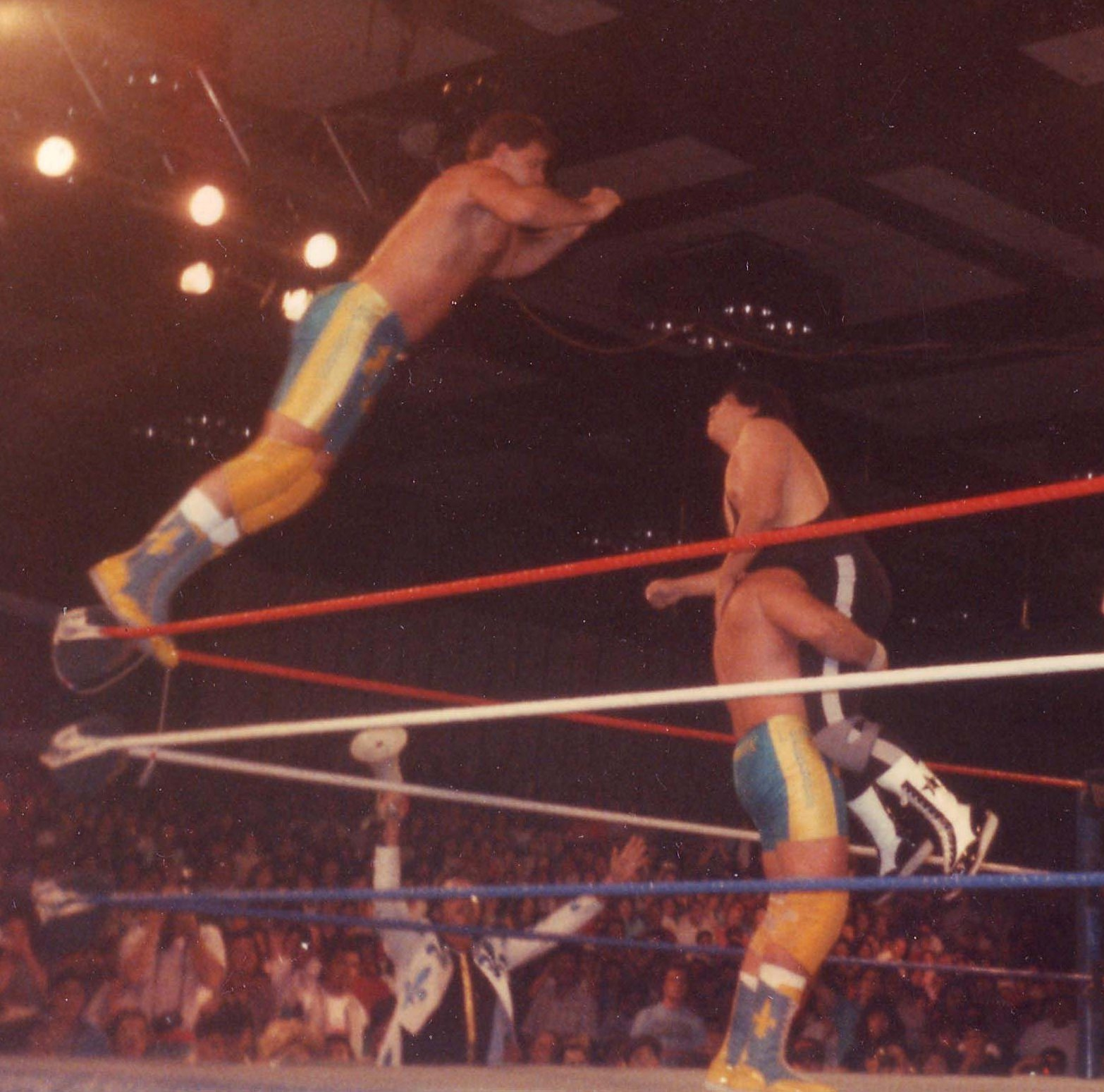 The Fabulous Rougeau Brothers' performing their La Bombe de Rougeau finisher.